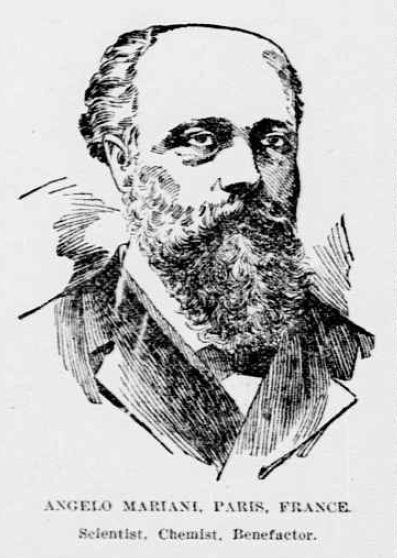 Illustration of Angelo Mariani, inventor of Mariani wine.